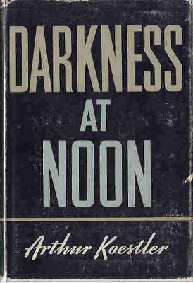 1st US edition of Darkness at Noon (Cover)